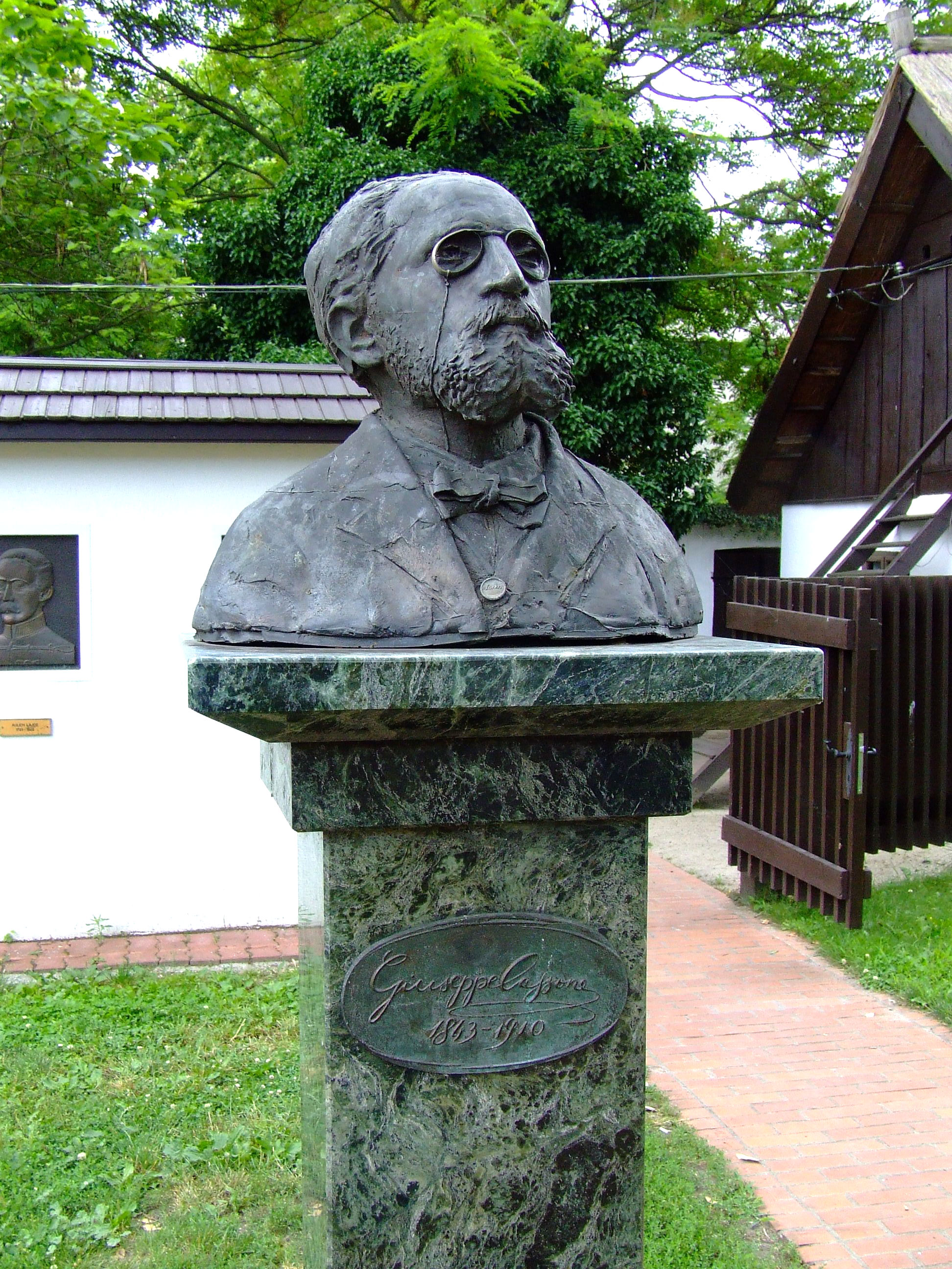 Giuseppe Cassone by Györgyi Lantos (1985 bronze bust). Giuseppe Cassone (1842–1910) was a Sicilian poet, translator and writer. He was the most faithful Italian translator of all of Sándor Petőfi's works to date. - Petőfi Sándor Műfordítói (Translators') sculpture park in Petőfi Sándor Square, Kiskőrös, Bács-Kiskun County, Hungary